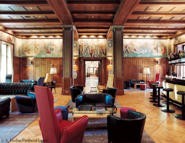 Laurin Bar